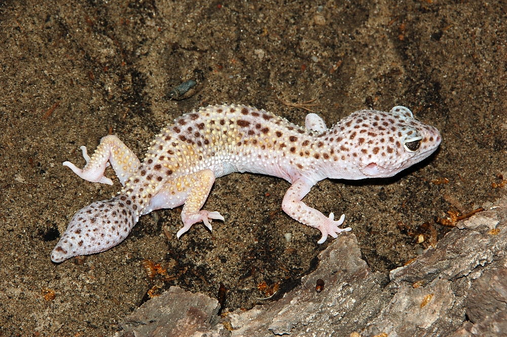 Eublepharis macularius, Leopard Gecko, Zoological Garden Berlin, Germany